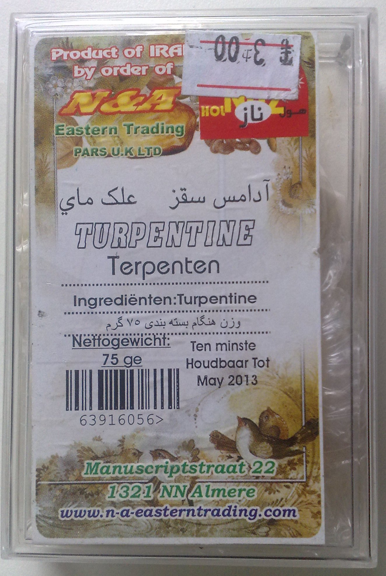 Turpentine resin as chewing gum